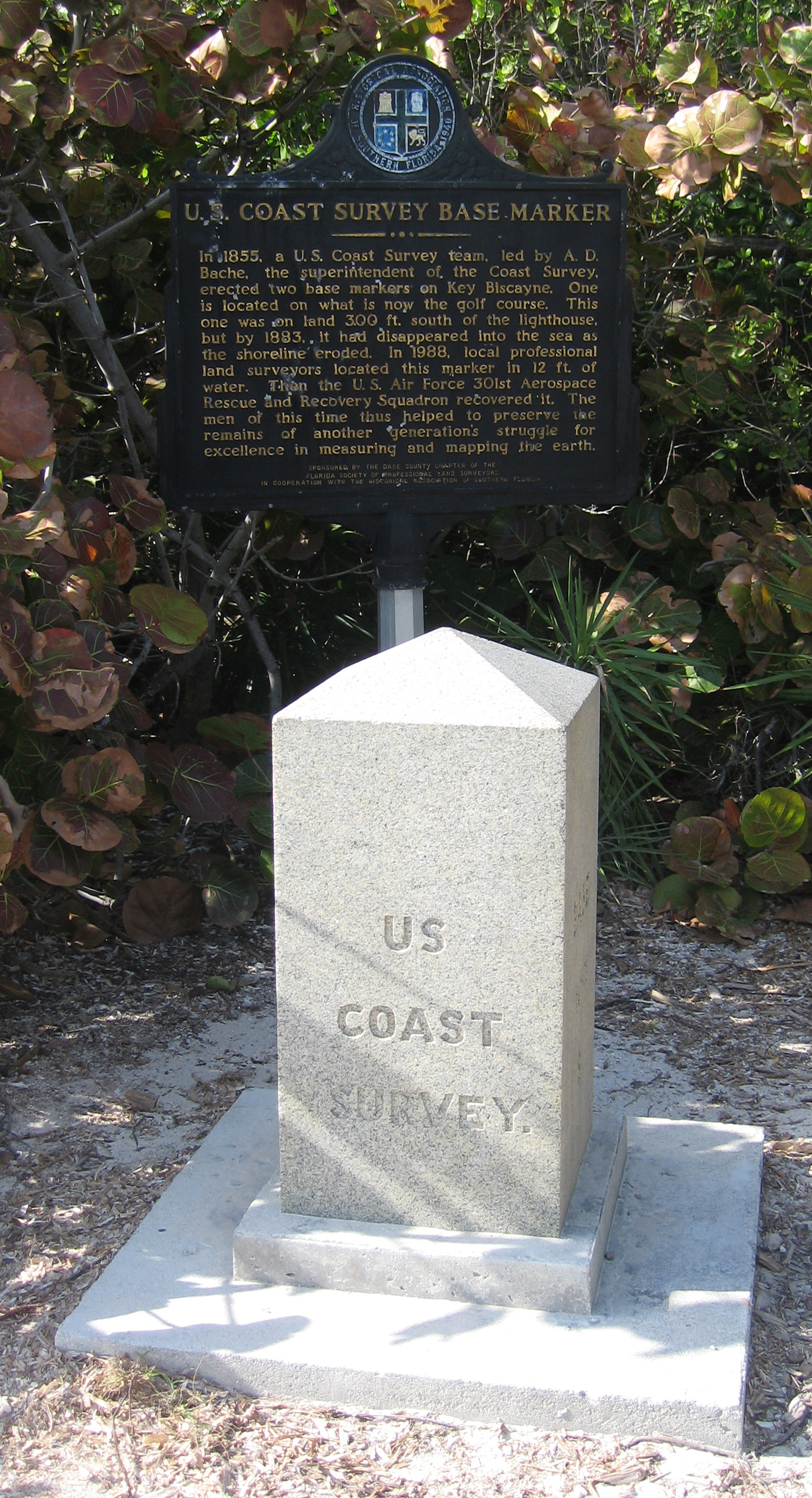 U.S. Coast Survey Base Marker located at Bill Baggs Cape Florida State Park near the Cape Florida Lighthouse. The marker is inscribed as follows: Side 1: BASE No.7. S. Side 2: 1855. Side 3: A.D.BACHE. SUPT. Side 4: US COAST SURVEY.